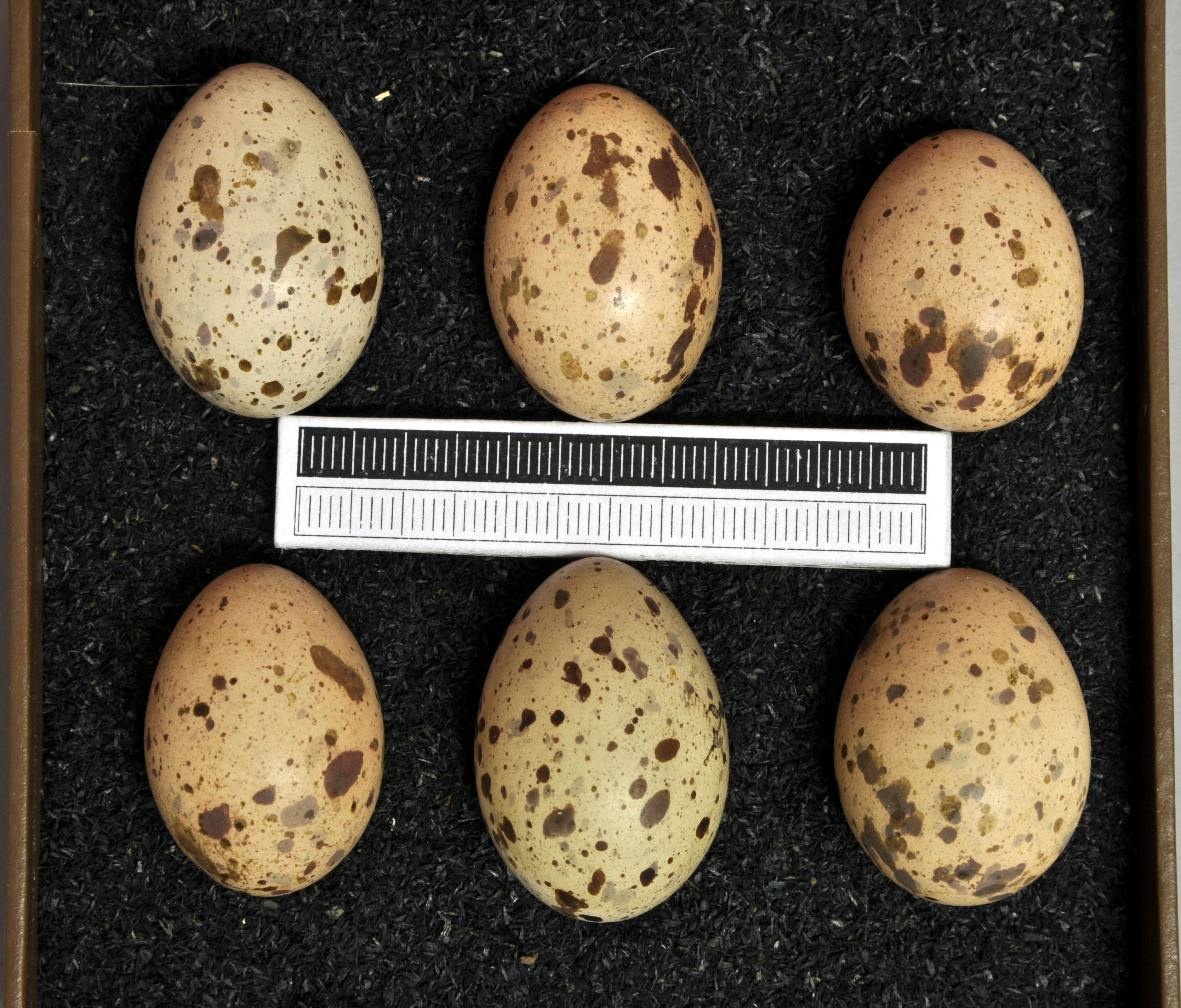 Spotted crake Porzana porzana , egg, Coll. Museum Wiesbaden